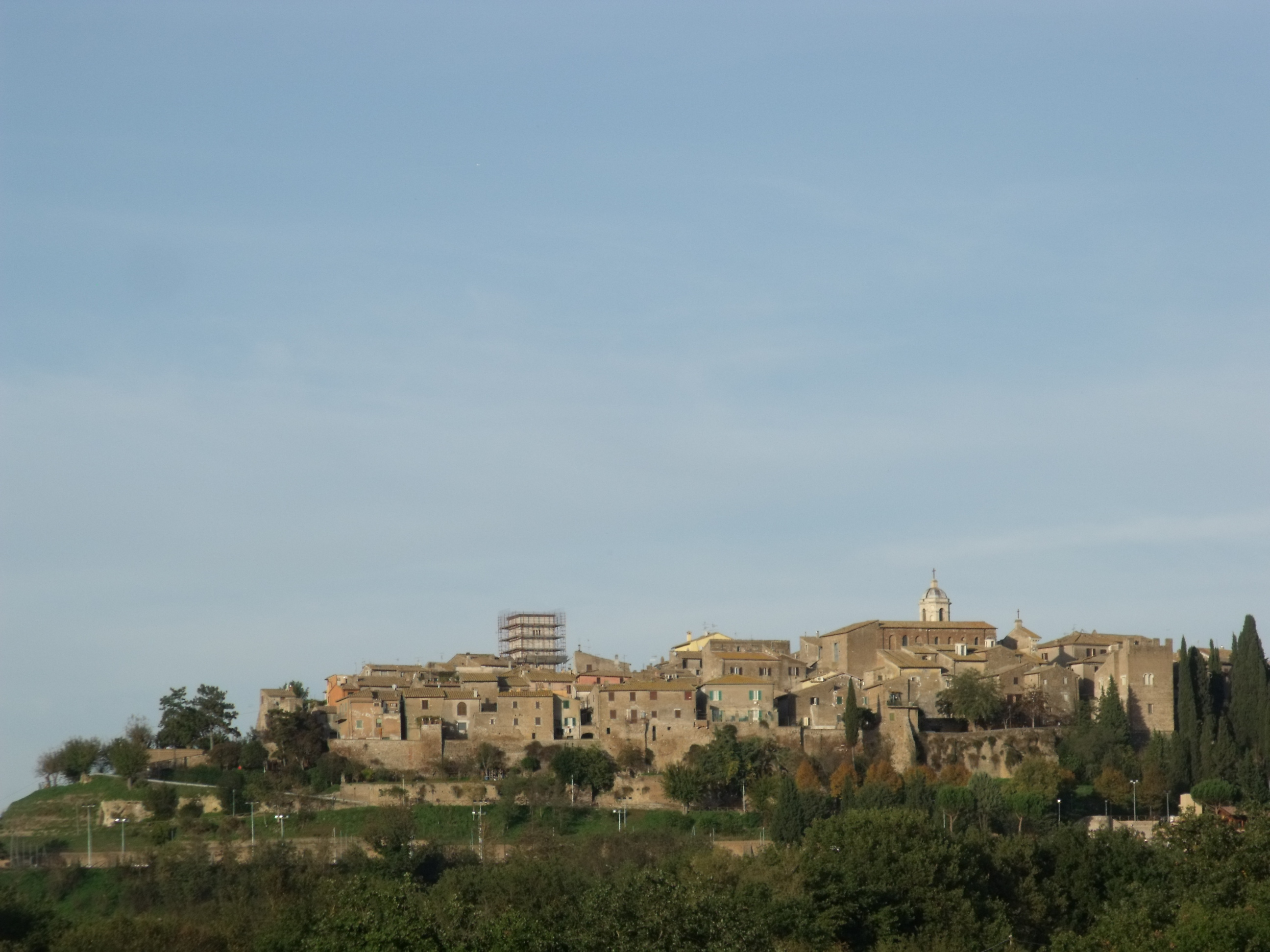 Panorama of Otricoli, Province of Terni, Umbria, Italy